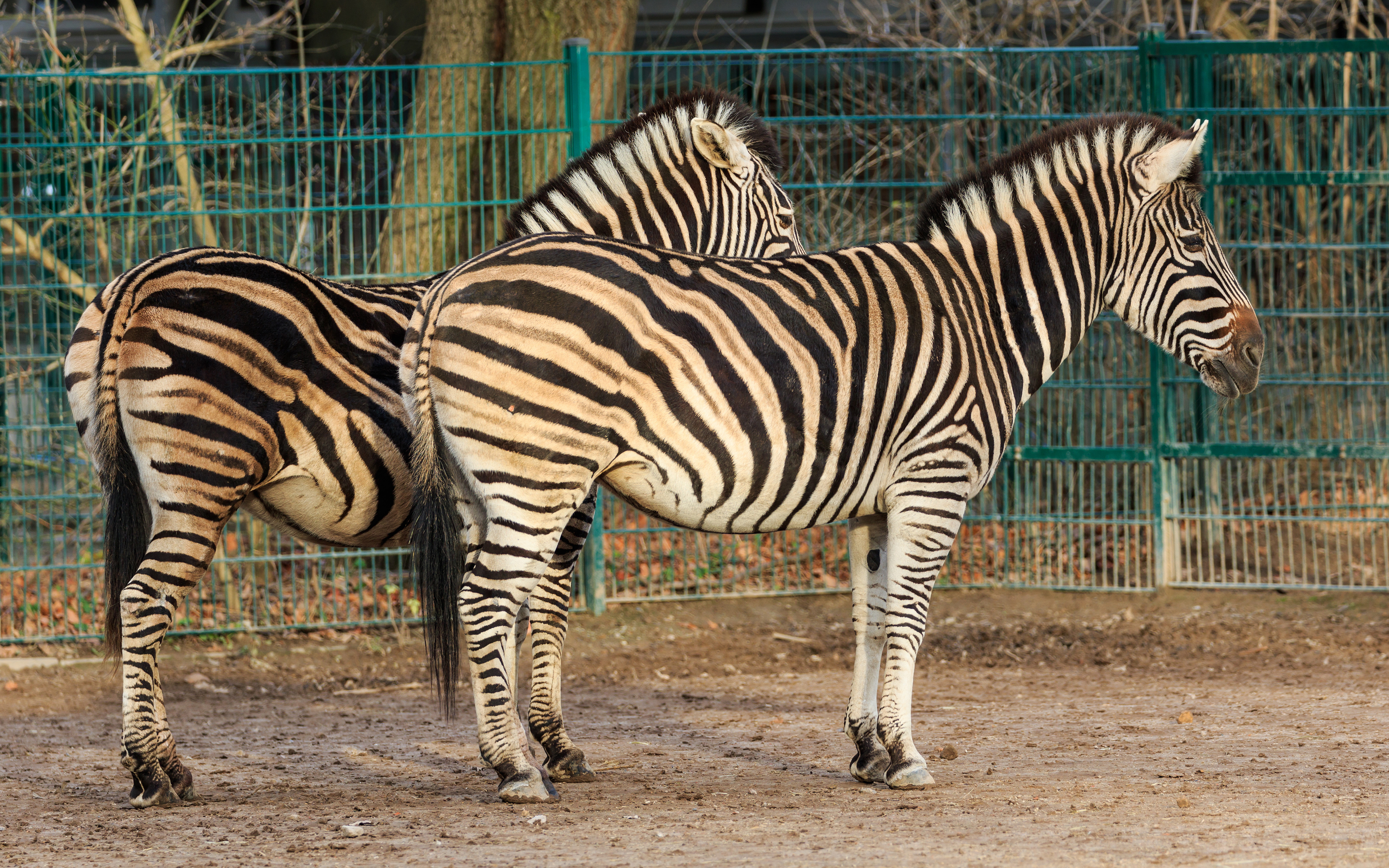 A Chapman’s zebra in the Berlin Tierpark (Friedrichsfelde zoo)